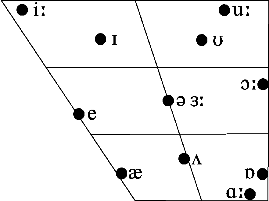 IPA vowel chart for Received Pronunciation monophthongs